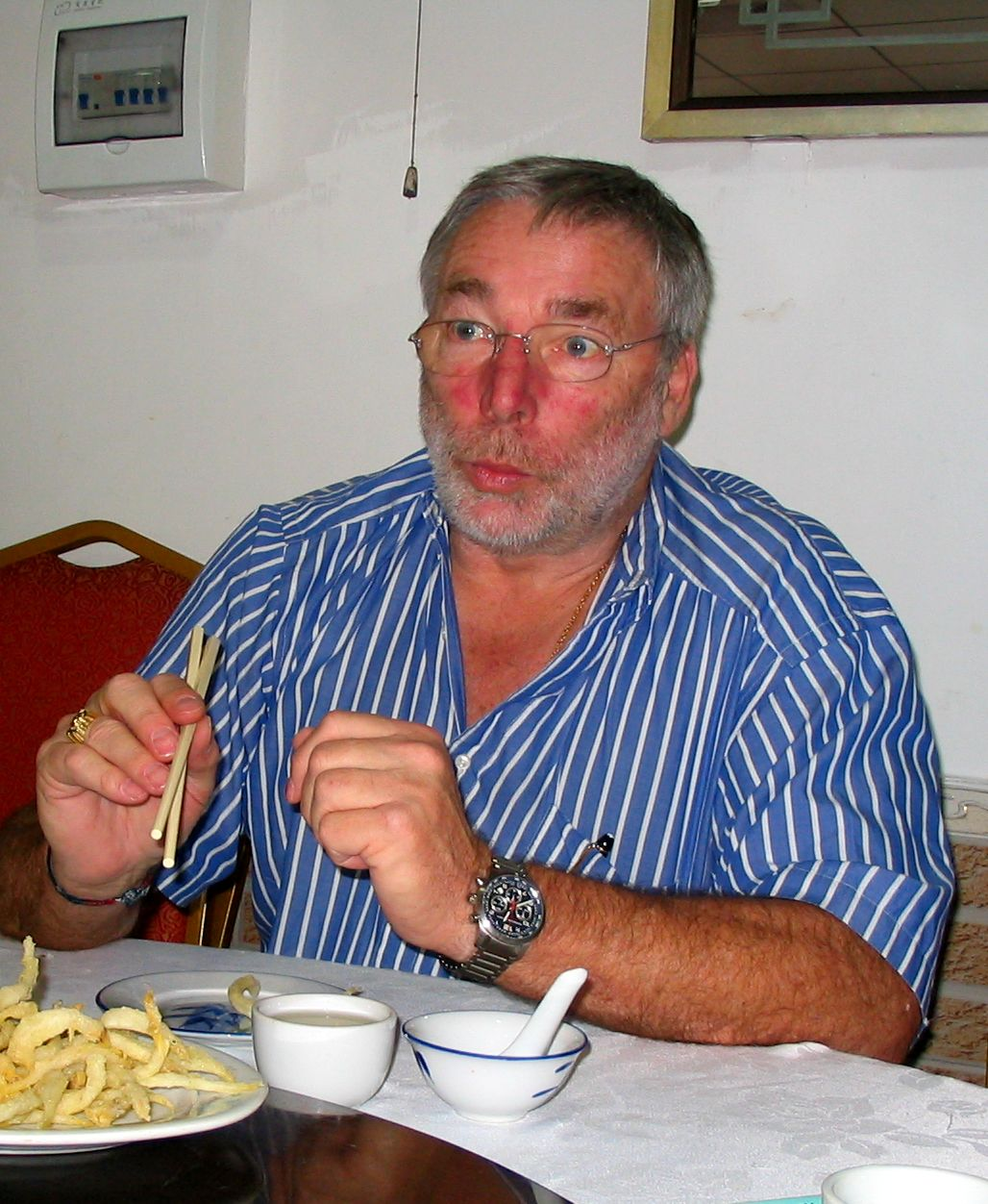 Jurgen Barth enjoying a Chinese meal in Zhuhai, China in November 2010.